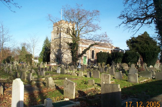 St Lawrence's parish church, Little Stanmore, Middlesex, seen from the south